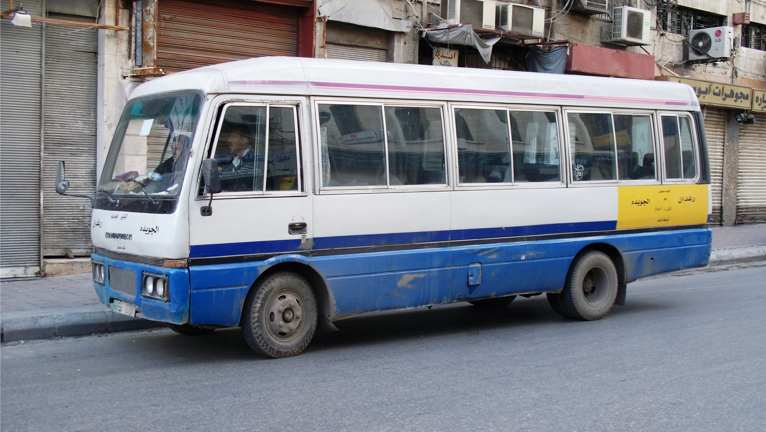 Mitsubishi Fuso Rosa bus (56 2787) in Jordan.